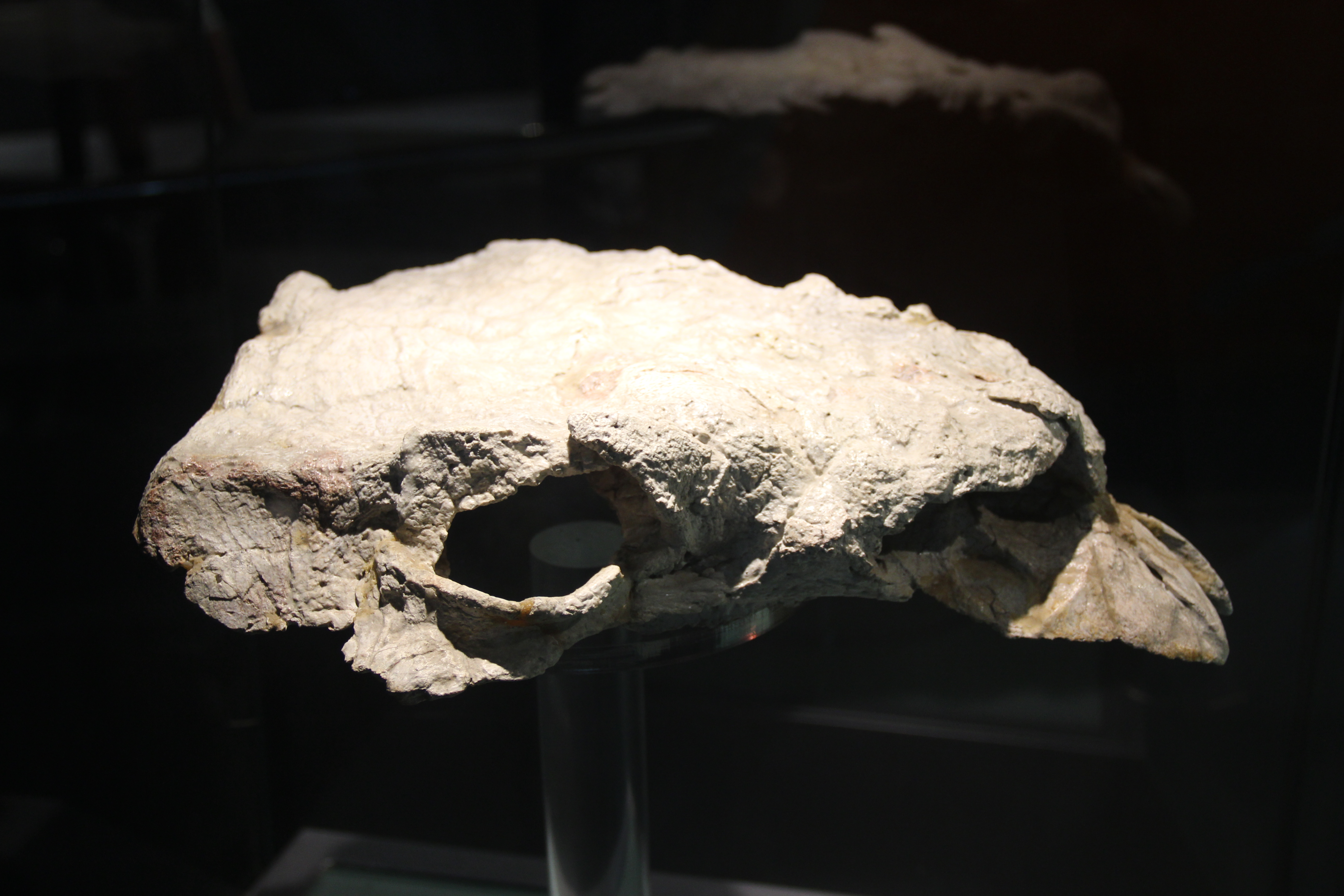 Henan Geological Museum, Zhengzhou, China. Complete indexed photo collection at .